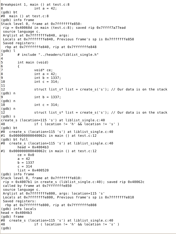 Debugging session with gdb 7.3; debugged program is a test program working with liblist.